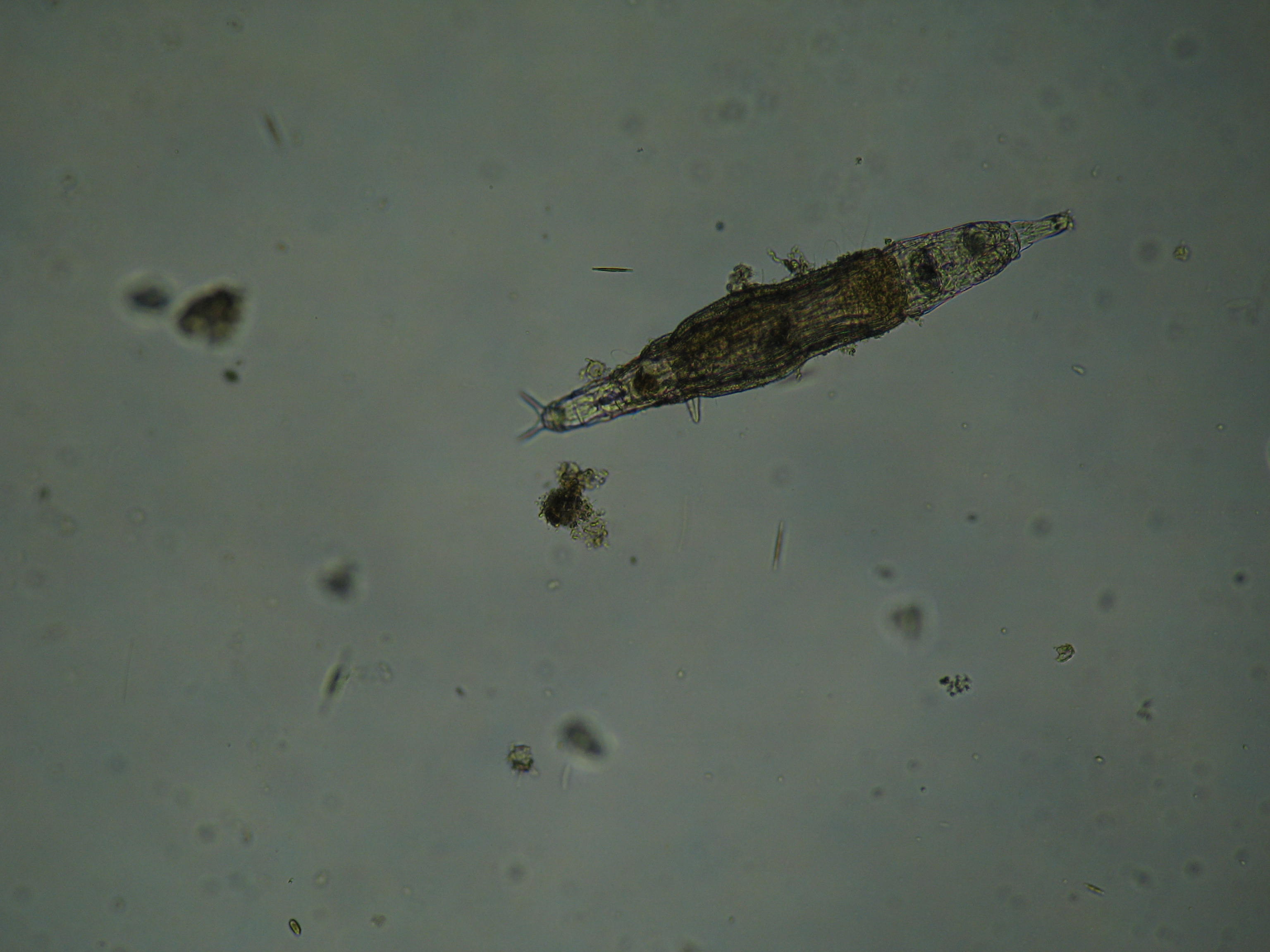 Rotifer (Species: Rotaria) in a sample from local pondwater treated with Protoslo.